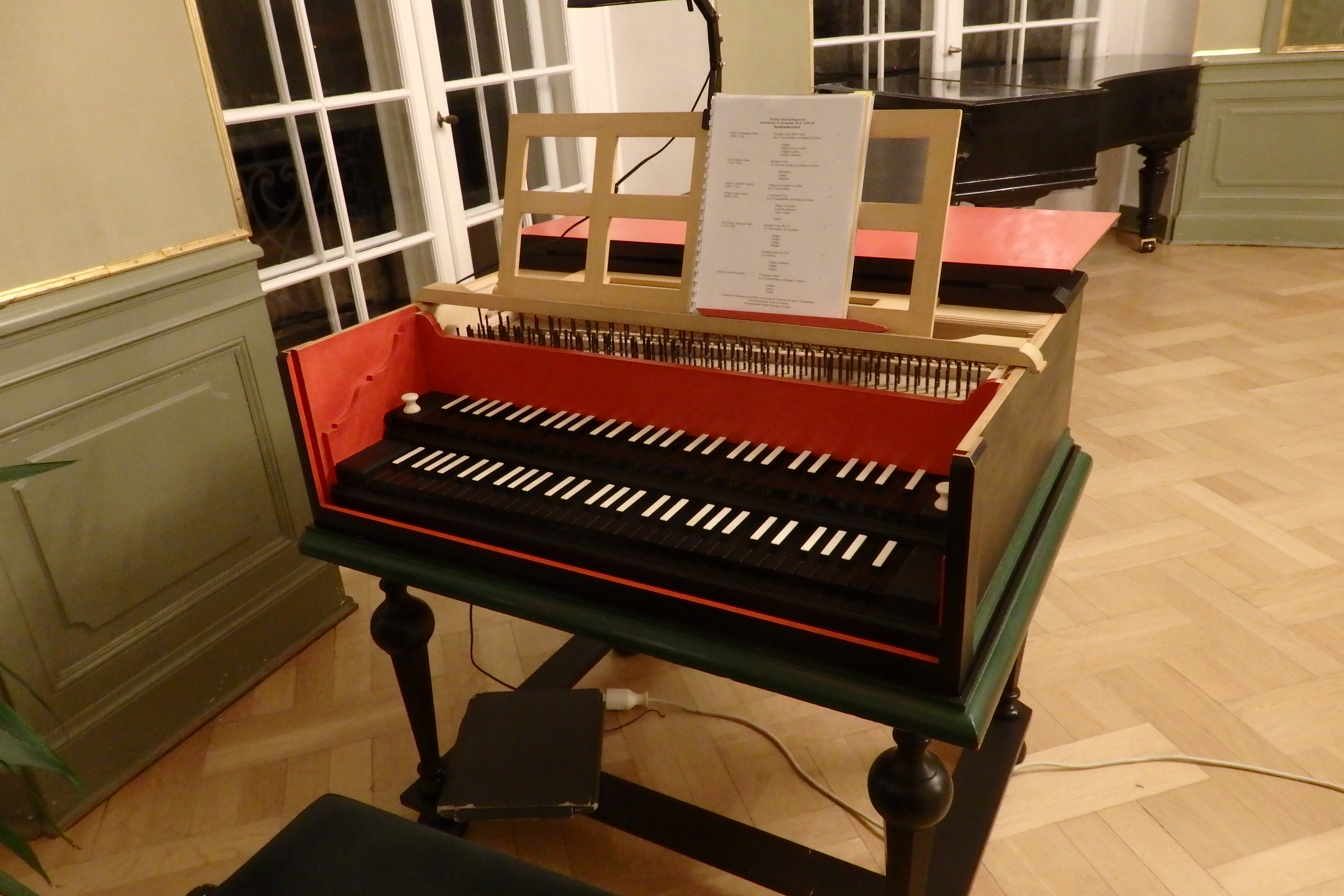 two-manual harpsichord by Matthias Kramer from Rosengarten (Harburg district) from 2007, a replica of the harpsichord of the Dresden Hoff organ and instrument make by Johann Heinrich Gräbner the Younger by 1739th